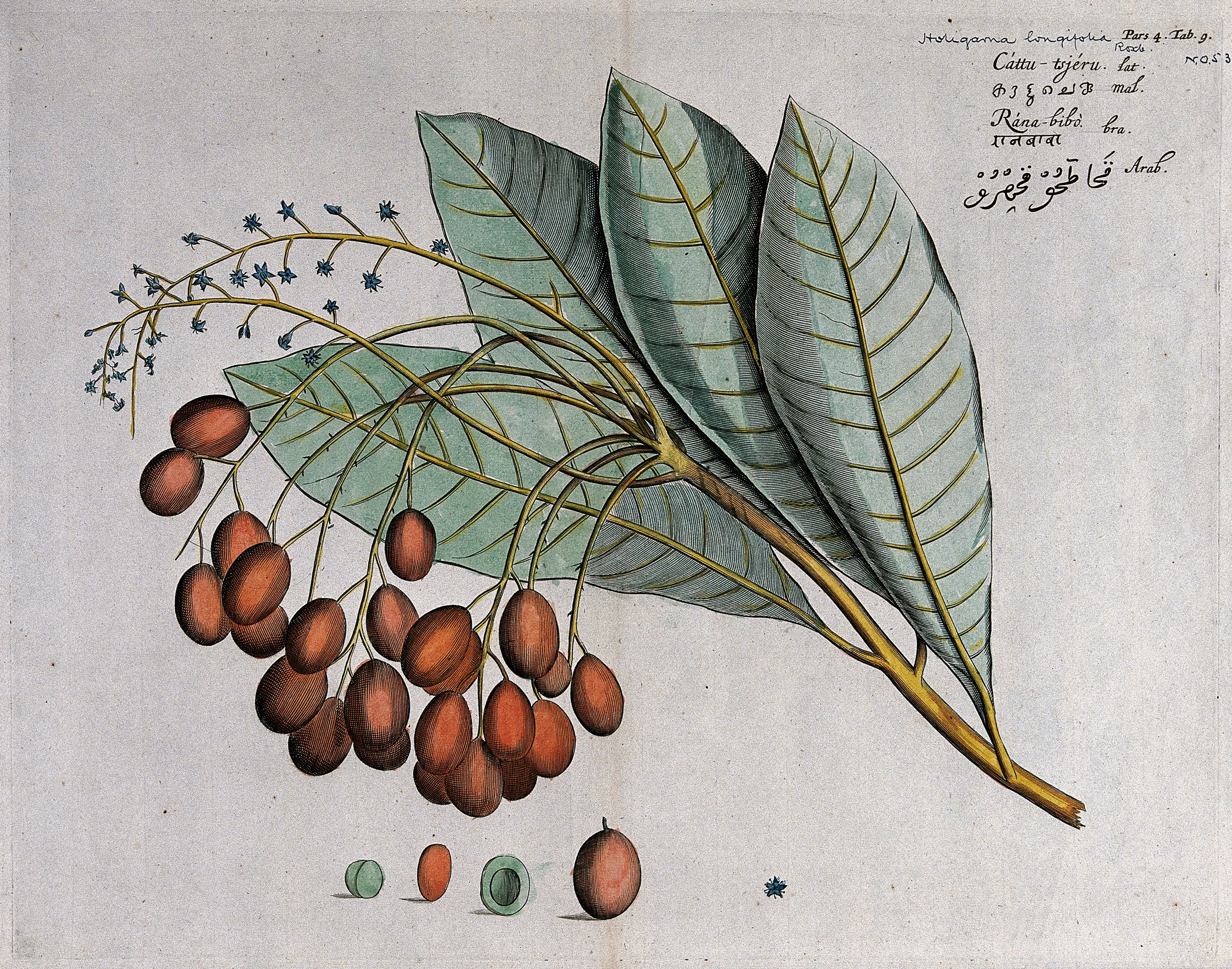 katou-tsjeroe, cheru Rheede, Hortus Malabaricus, vol. 4:19-21, t9 Holigarna arnottiana: branch with leaves, flowers and fruit and cross-sections of fruit and seed. Coloured line engraving. Iconographic Collections Keywords: engravings; Anacardiaceae; botany - pre-linnaean works; Hendrik Adriaan van Reede tot Drakestein; botany - india - malabar coast; scientific illustrations